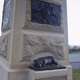 Bronze statue of a bulldog Civil War mascot at the base of the 11th Pennsylvania Volunteer Infantry monument on the Gettysburg Battlefield.